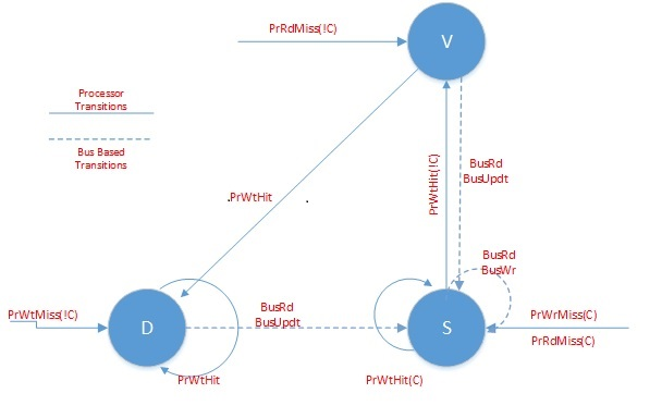 State Transition Diagram for Firefly Cache Coherence Protocol.